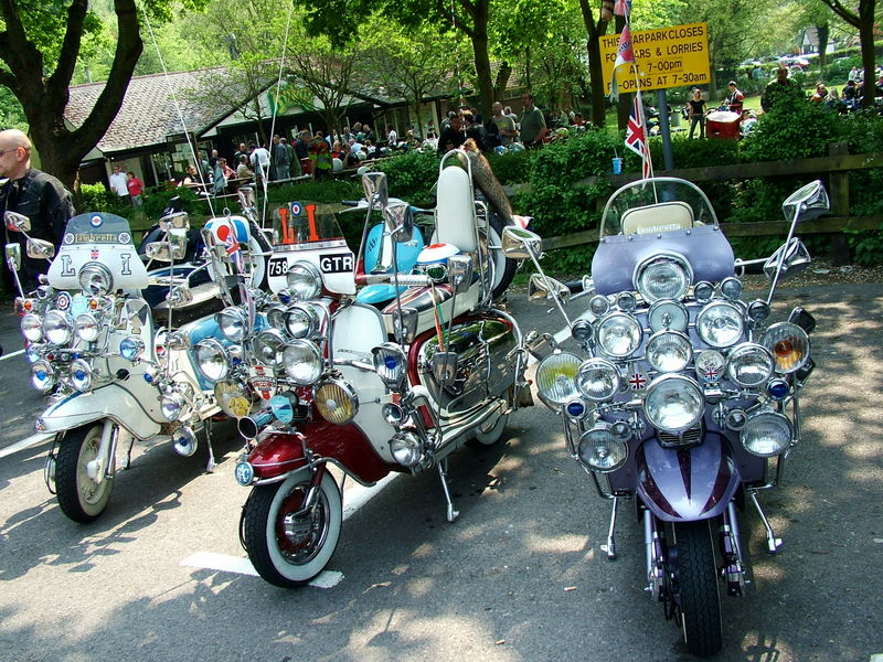 Mod style scooters